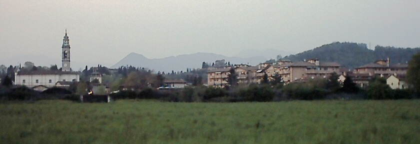 View of Curno, Bergamo, Lombardy, Italy